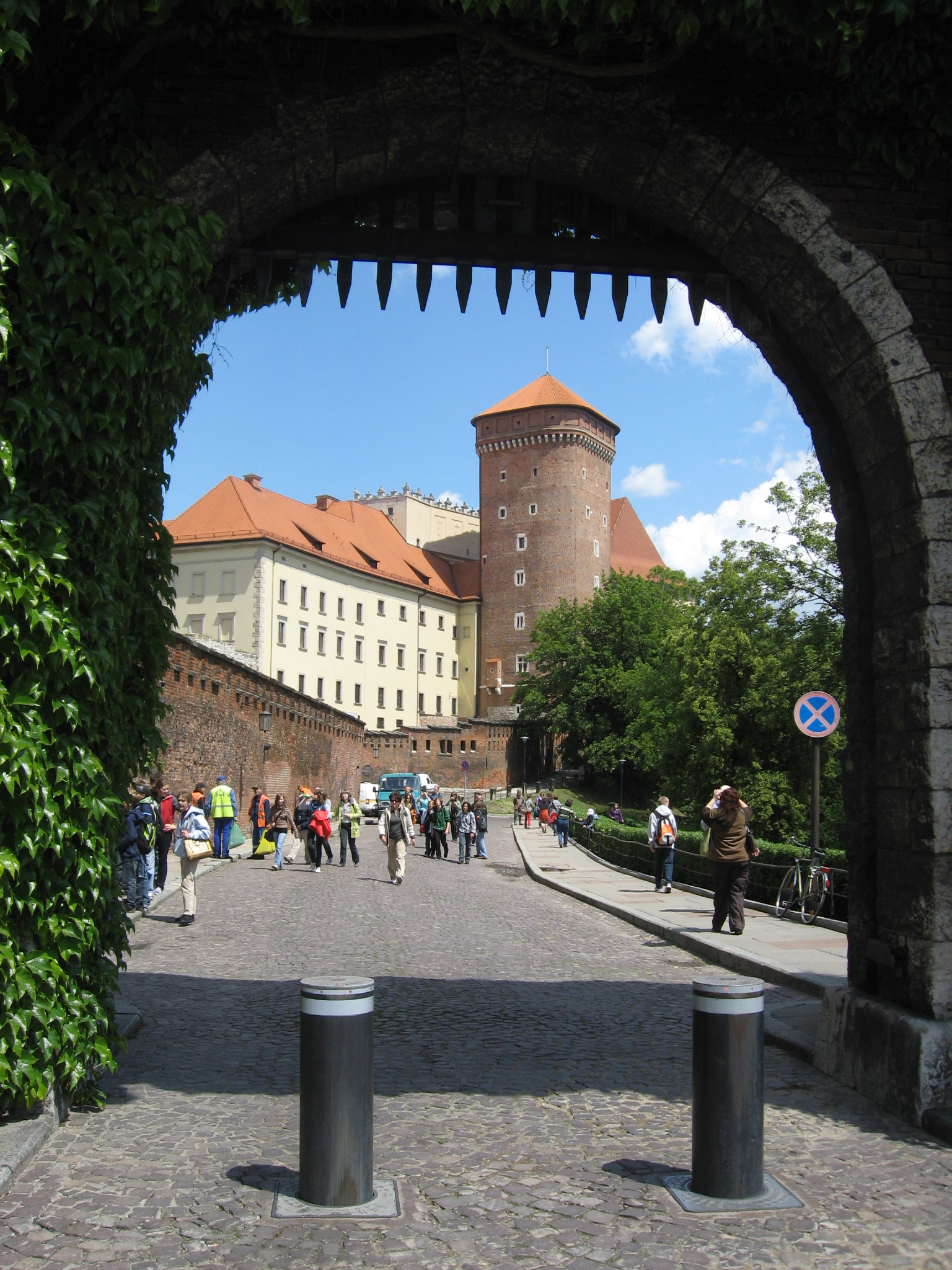 Entrance to Wawel Castle, Krakow, Poland.